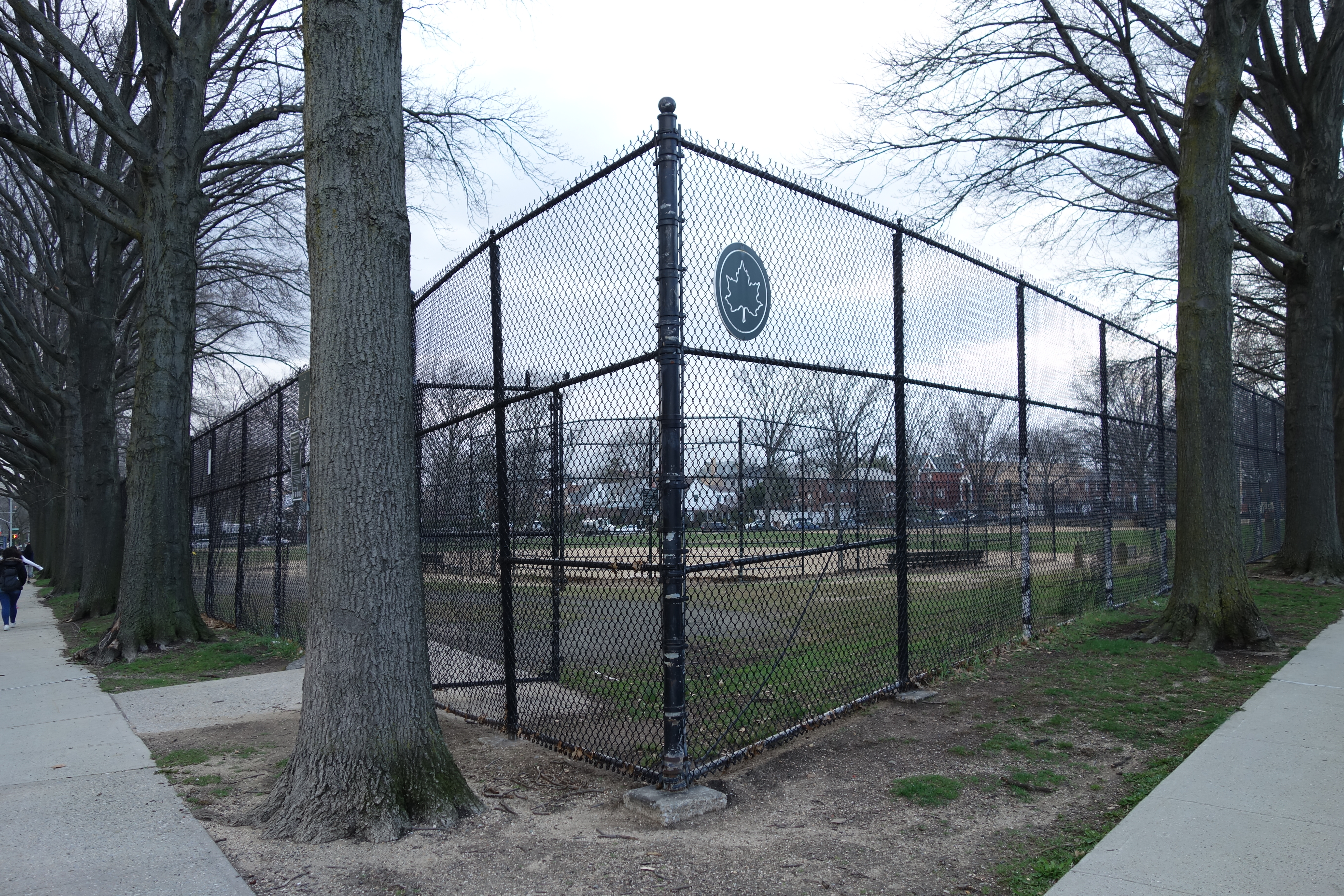 Judge Moses Weinstein Playground, formerly Vleigh Place Playground, at the northwest corner of Union Turnpike and 141st Street in Kew Gardens Hills, Queens.